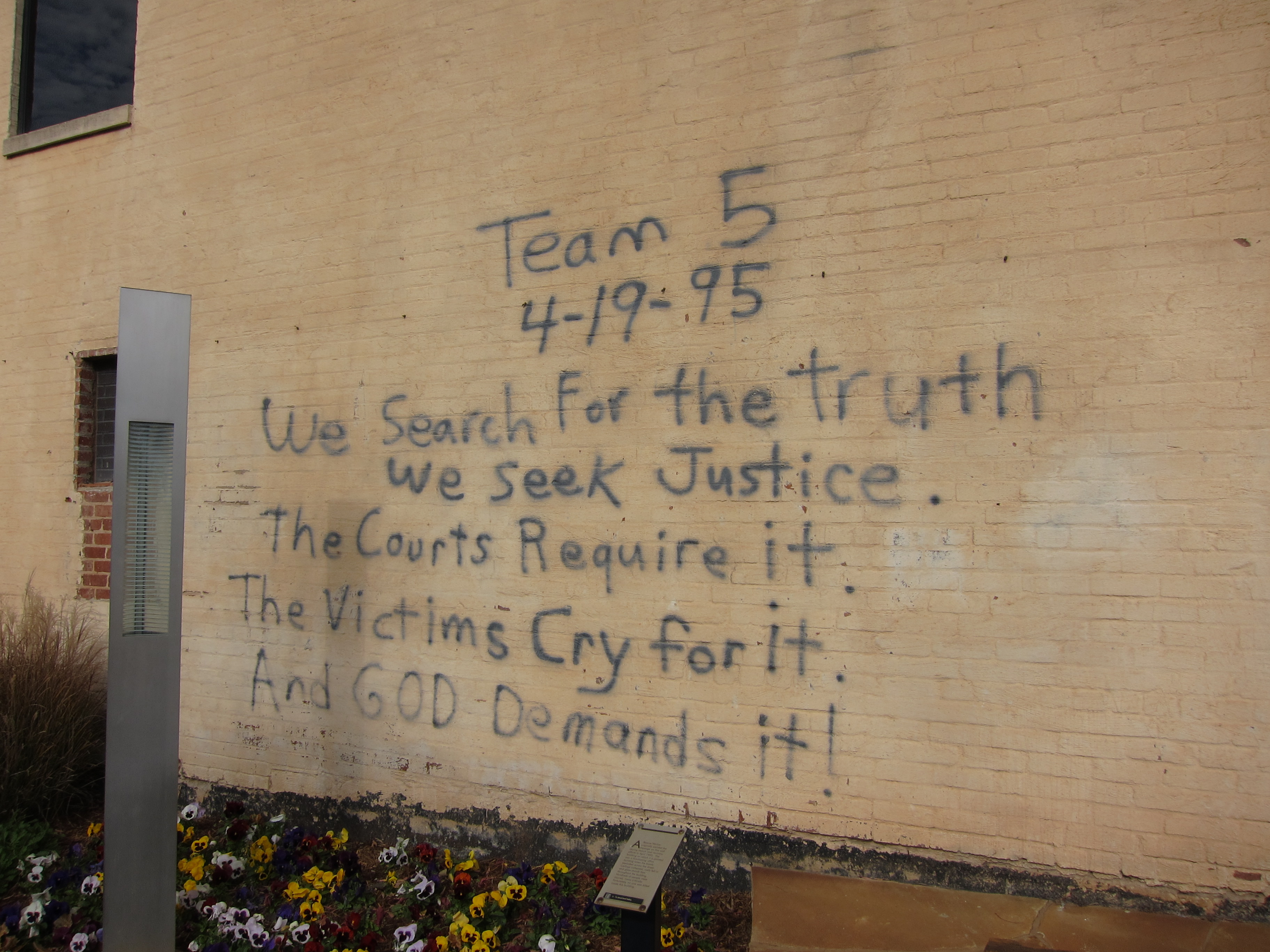 Graffiti from Key evidence in Oklahoma City 1995 Bombing